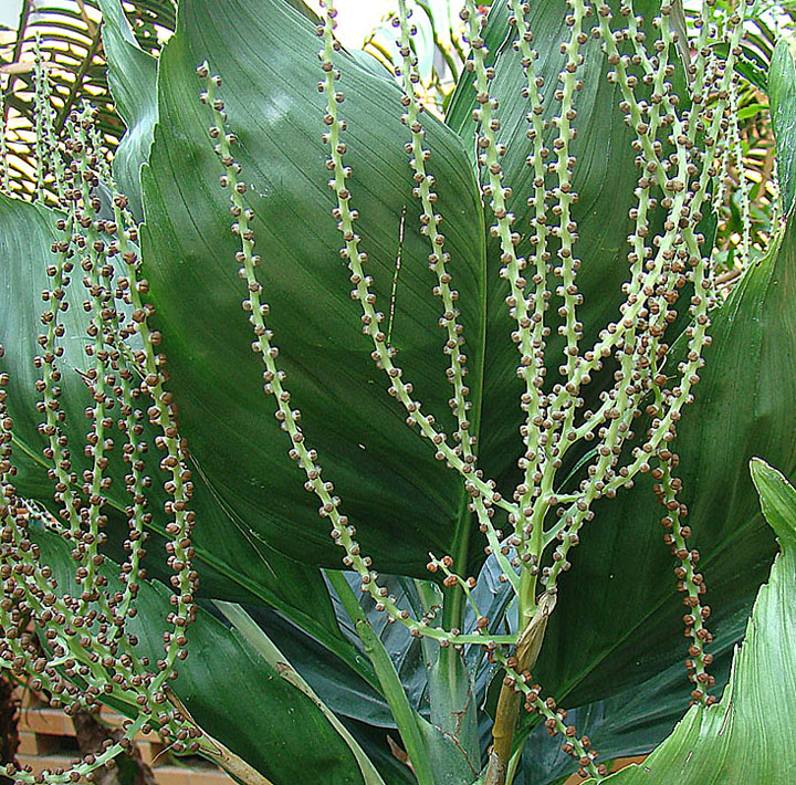 Chamaedorea metallica — Metallic palm. In the gardens of Lotusland — in Montecito, near Santa Barbara in southern California. Arecaceae family; native to tropical Mexico. Matthaei